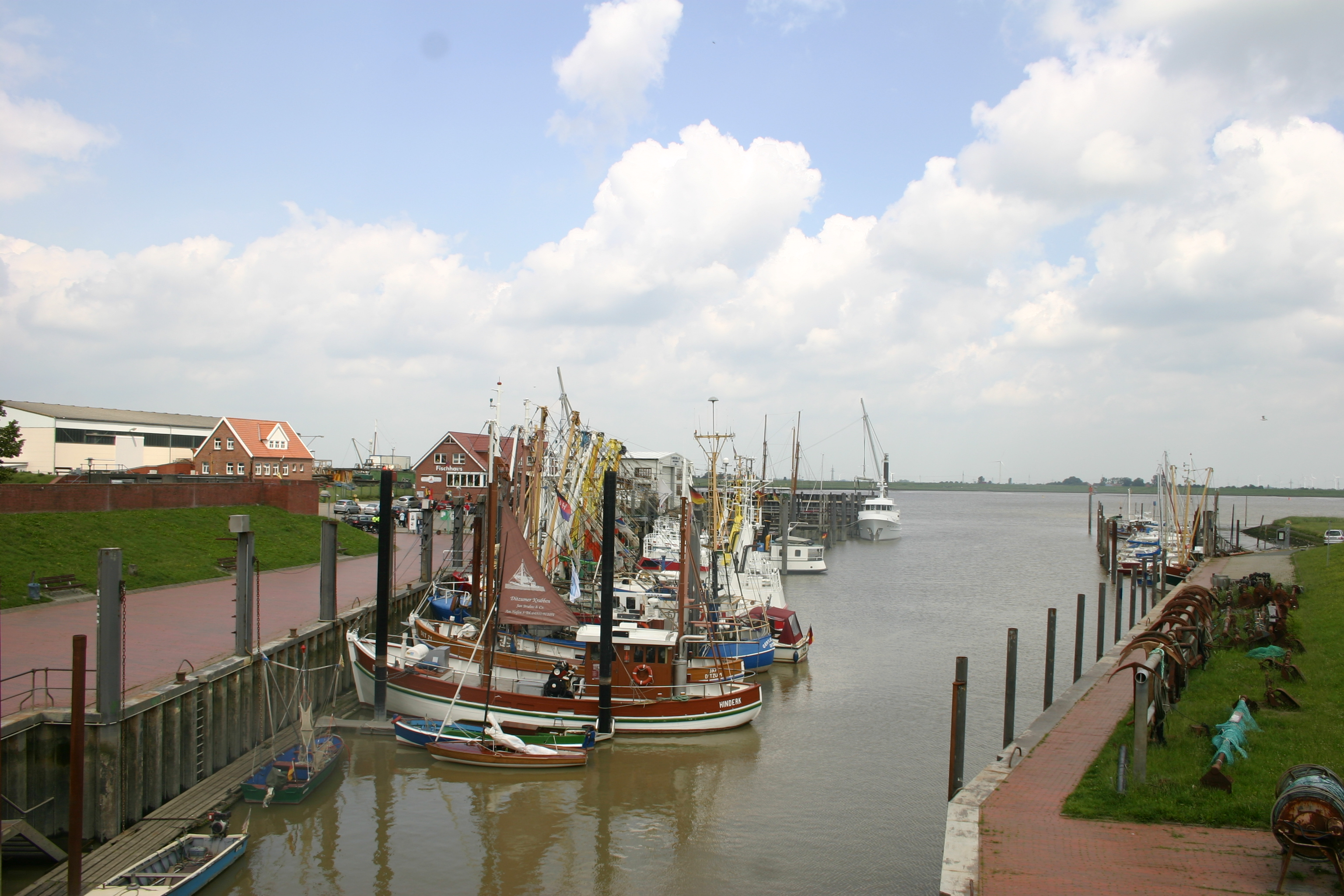 The small port in Ditzum, community of Jemgum, district of Leer, East Frisia, Germany. In the center the fleet of cutters fishing for North Sea shrimps (Crangon crangon), to the left Bültjer Shipyard, to the right the small marina. In the background, the river Ems and its northern bank can be seen.